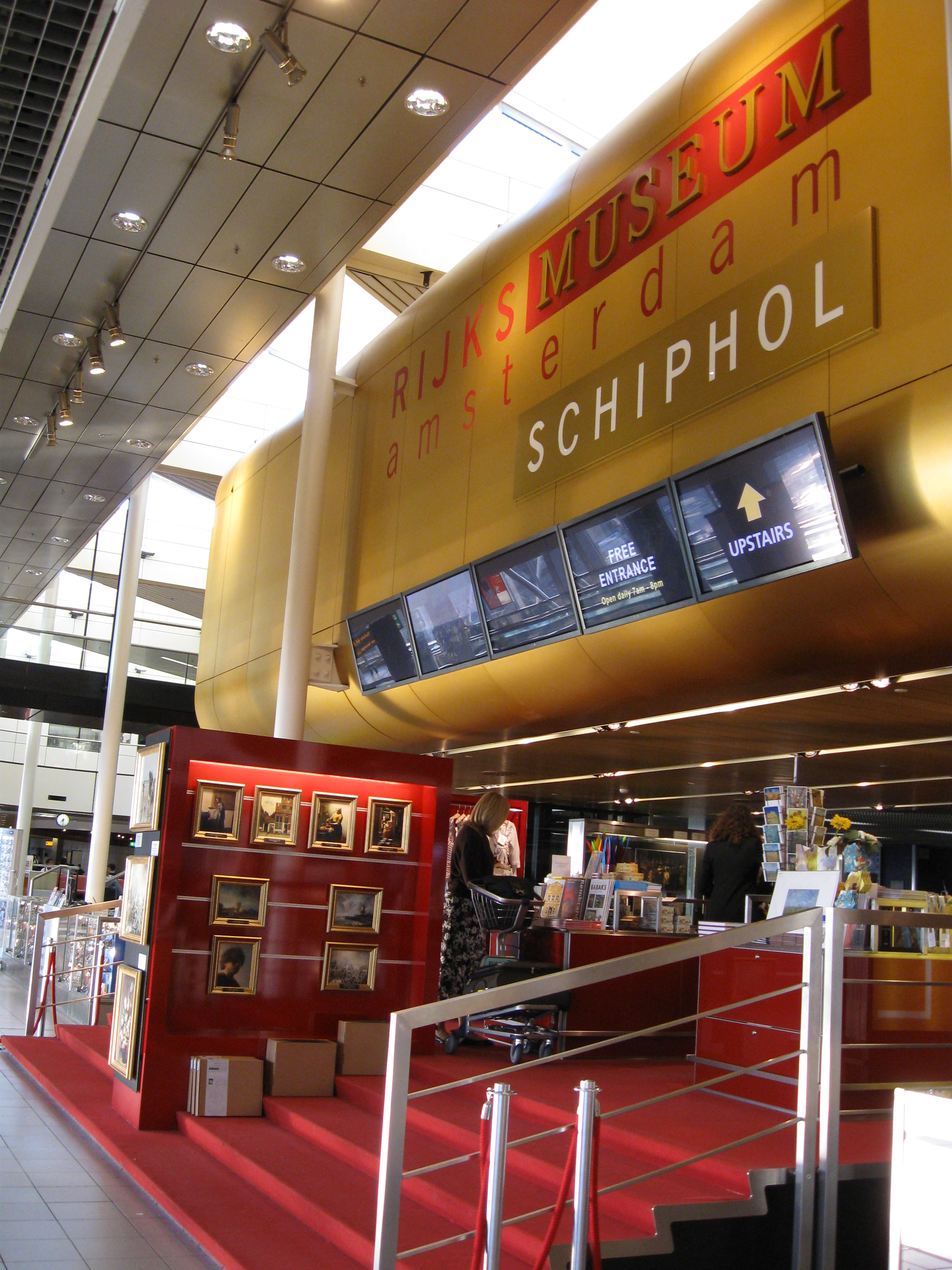 Entrance to the RijksMuseum Amsterdam at Schipol Airport